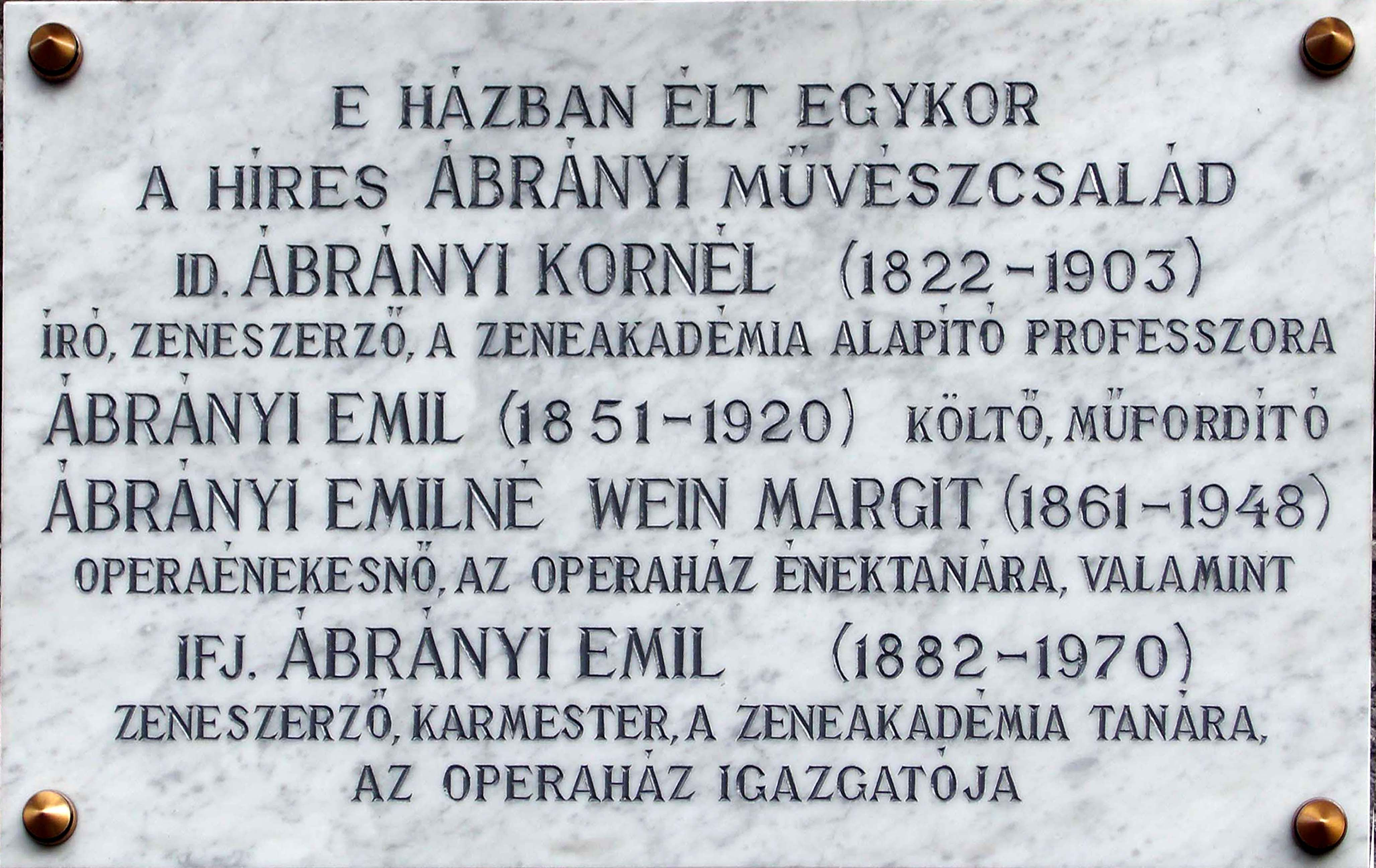 Memorial tablet of Abranyi family, Budapest